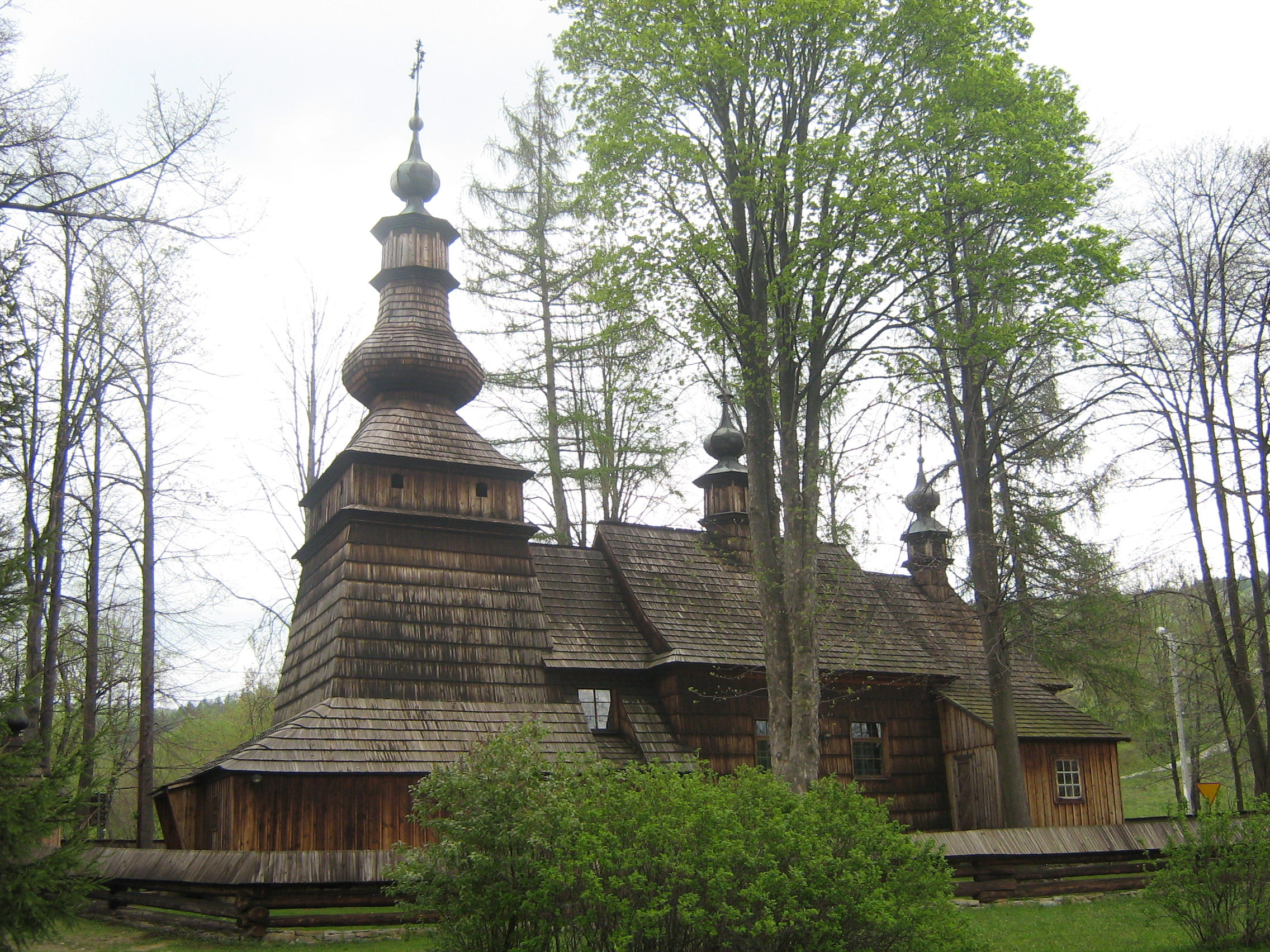 Greek Catholic wooden church in Ropica Górna, Low Beskids, Poland. Currently a Roman Catholic church.